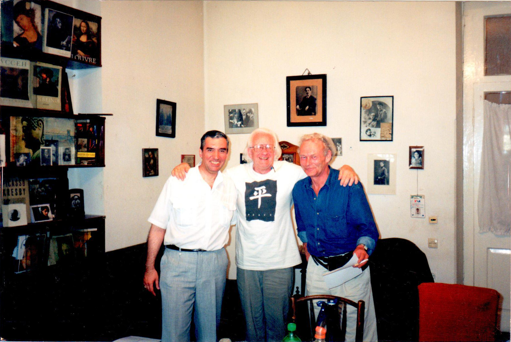 . 2004 г., Георгий Хуцишвили (слево) и Йохан Галтунг ( в центре)